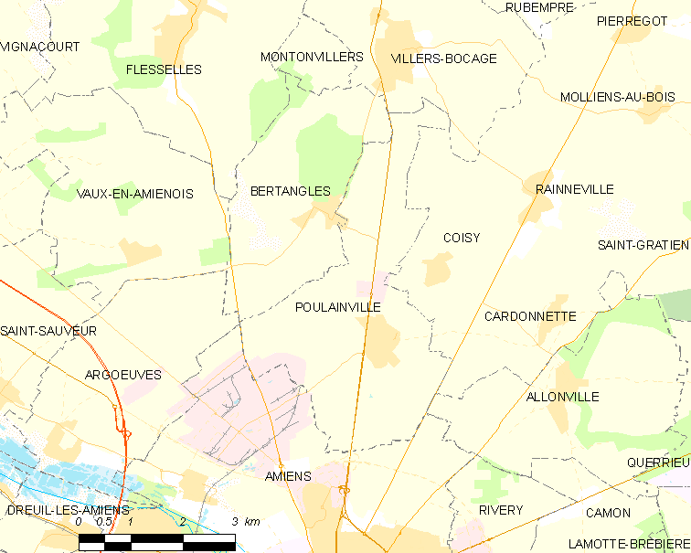 Map of French municipality Poulainville